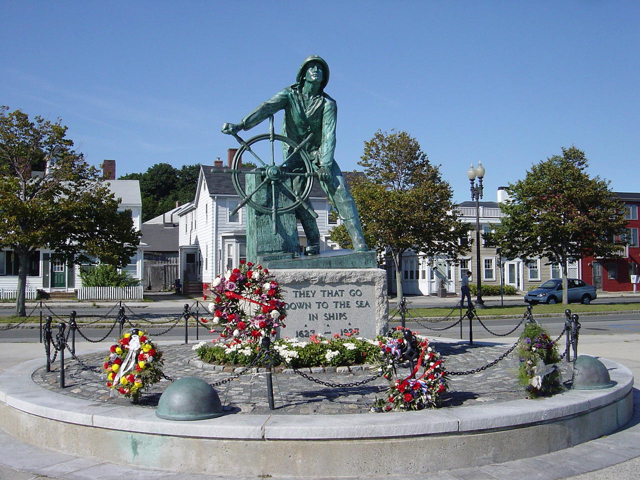 The iconic "Man at the Wheel"/Fisherman's Memorial Statue in Gloucester, Massachusetts.